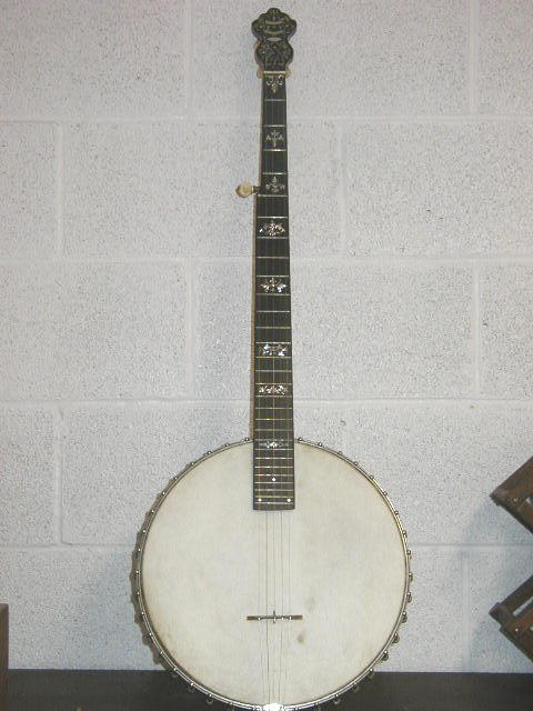 1902 A.A. Farland 5-string cello banjo